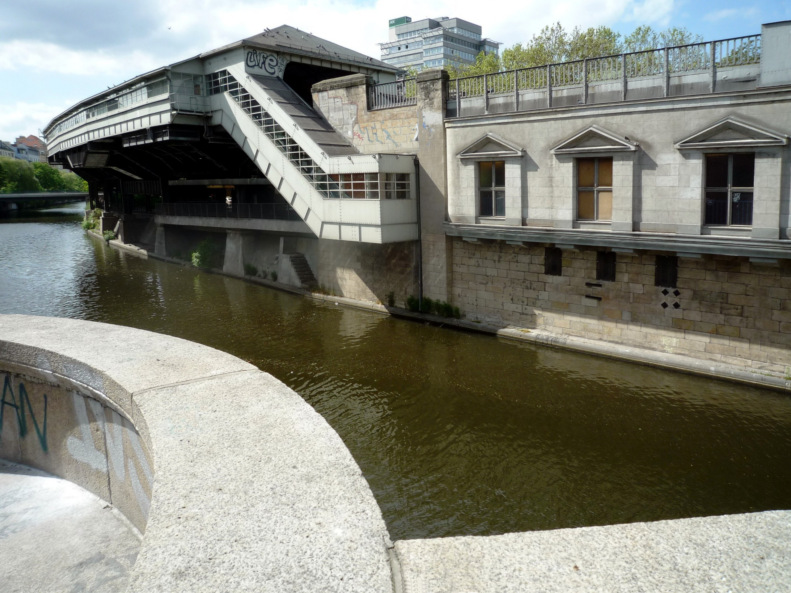 Berlin, Subway-station "Hallesches Tor" beside the "Landwehrkanal".